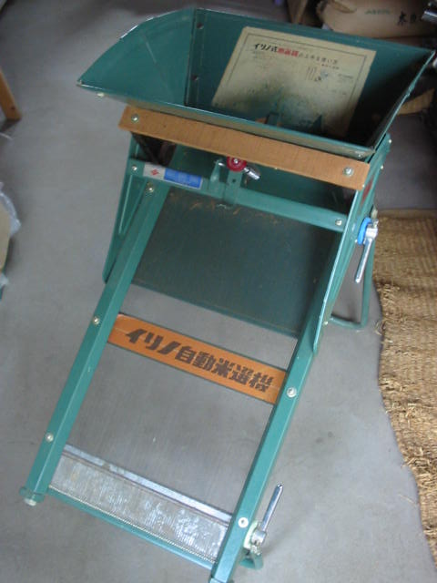 A traditional rice grader, widely used in Japan.